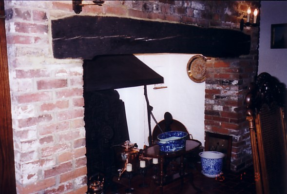 Hill House, Loose. Original Fireplace in the Dining Room